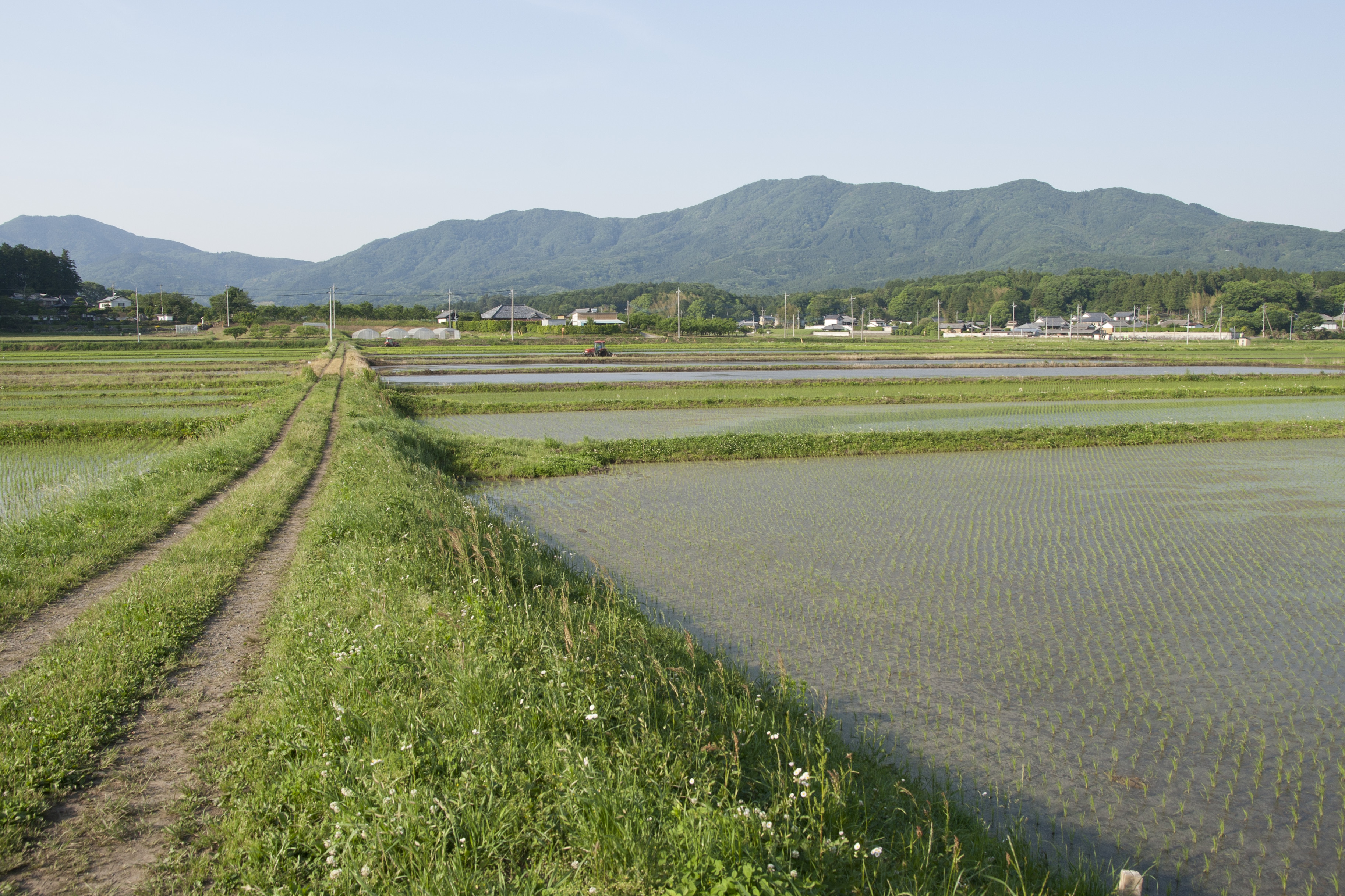 Mount Nandai(Nandai-san なんだいさん 難台山), Ishioka and Kasama, Ibaraki Pref., Japan